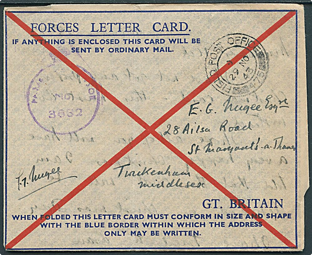 Forces Letter Card with red St. Andrew's Cross handstamped FPO 475 from Gibraltar to England in November 1943 with additional unit censor 3652 in violet